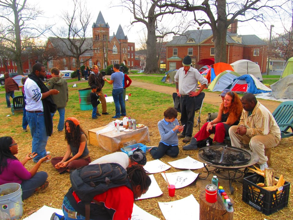 Occupy Charlottesville runs around